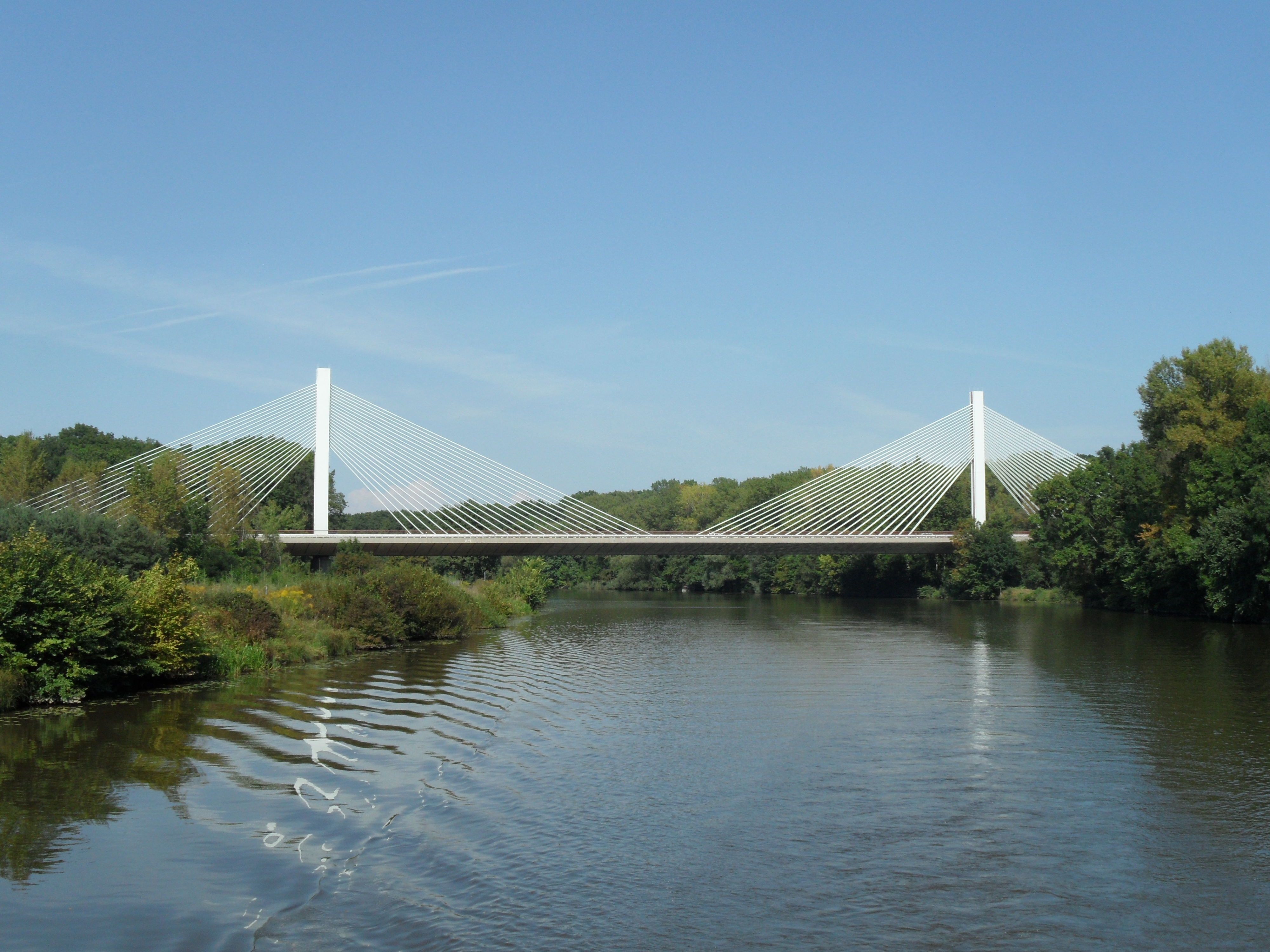 Bridge on Motorway D11 over River Labe Near Poděbrady A. Overview (View Down Stream, Direction from Kolín), the Czech Republic.